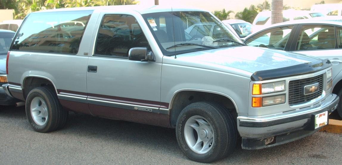 1992-1999 Chevrolet Silverado (SUV version, not US/Canadian pickup version) photographed in Mazatlan, Sinaloa, Mexico.